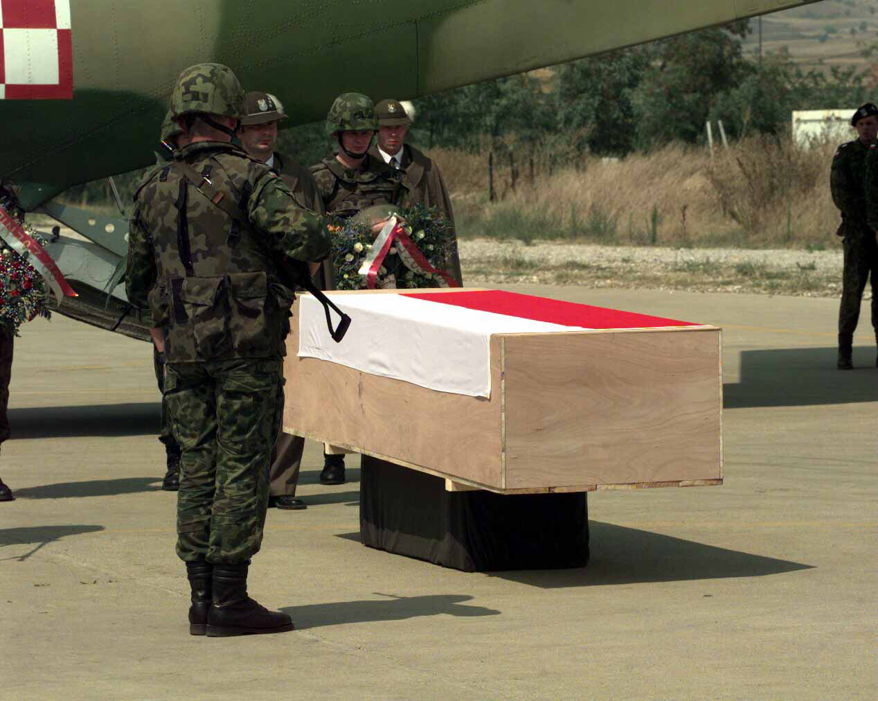 Pictured is the farewell ceremony for a fallen Polish soldier on August 19th, 2000, at Camp Able Sentry, Macedonia. The Polish soldier died in a vehicle accident during his tour in Kosovo with the KFOR Peacekeeping Operations.